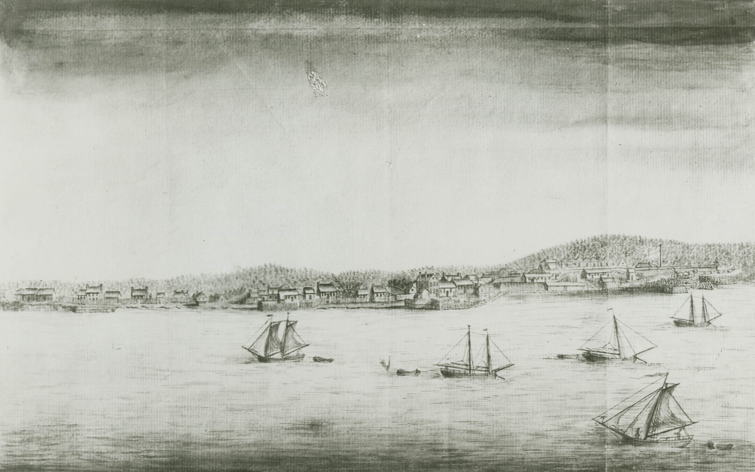 "Taken on the Spot by Capt. J. Hamilton of His Majesty's 40th Reg't of foot." Annapolis Royal, Nova Scotia